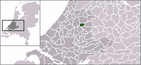 Location of Boskoop in the Netherlands.